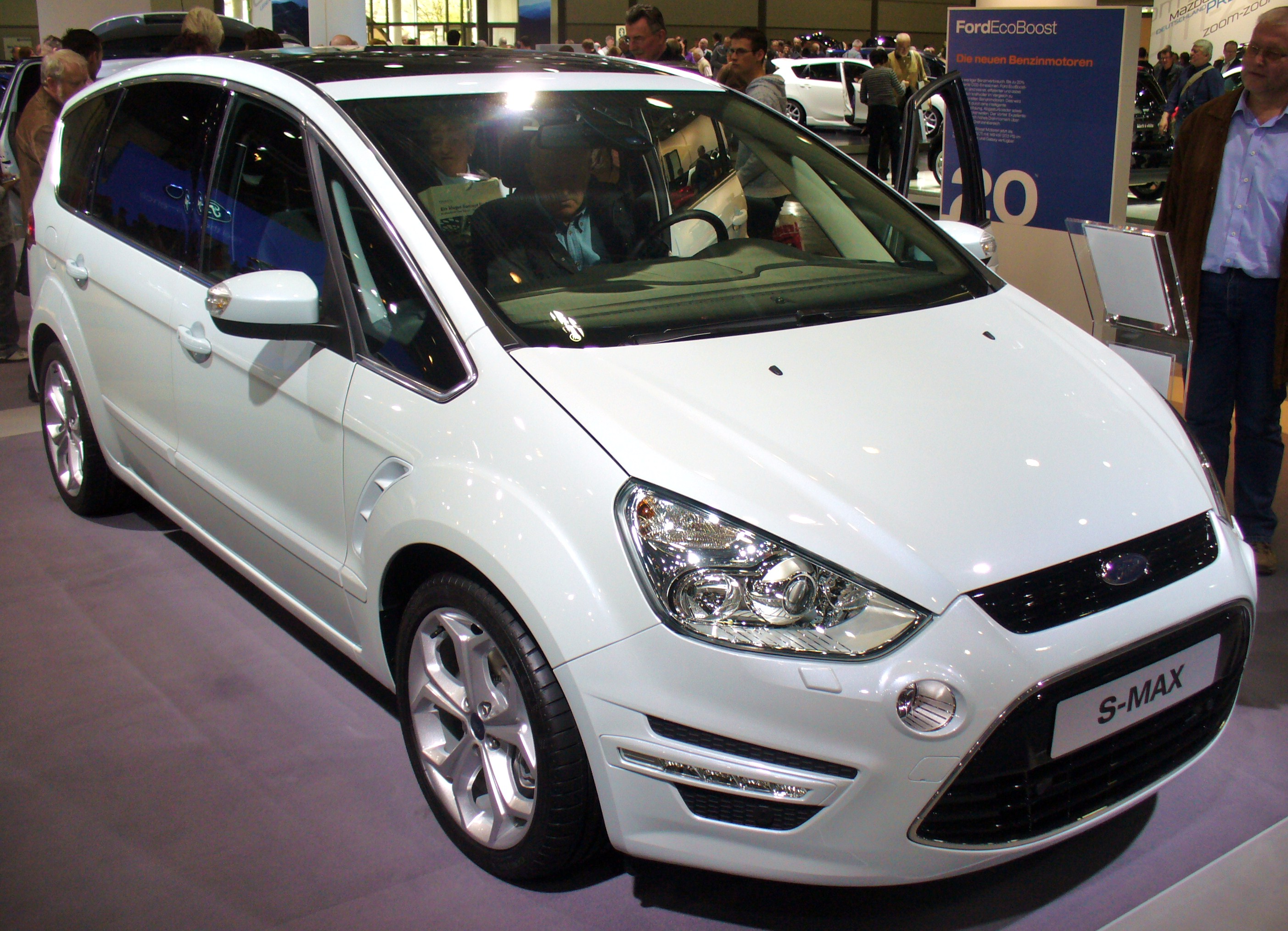 Ford S-Max Facelift